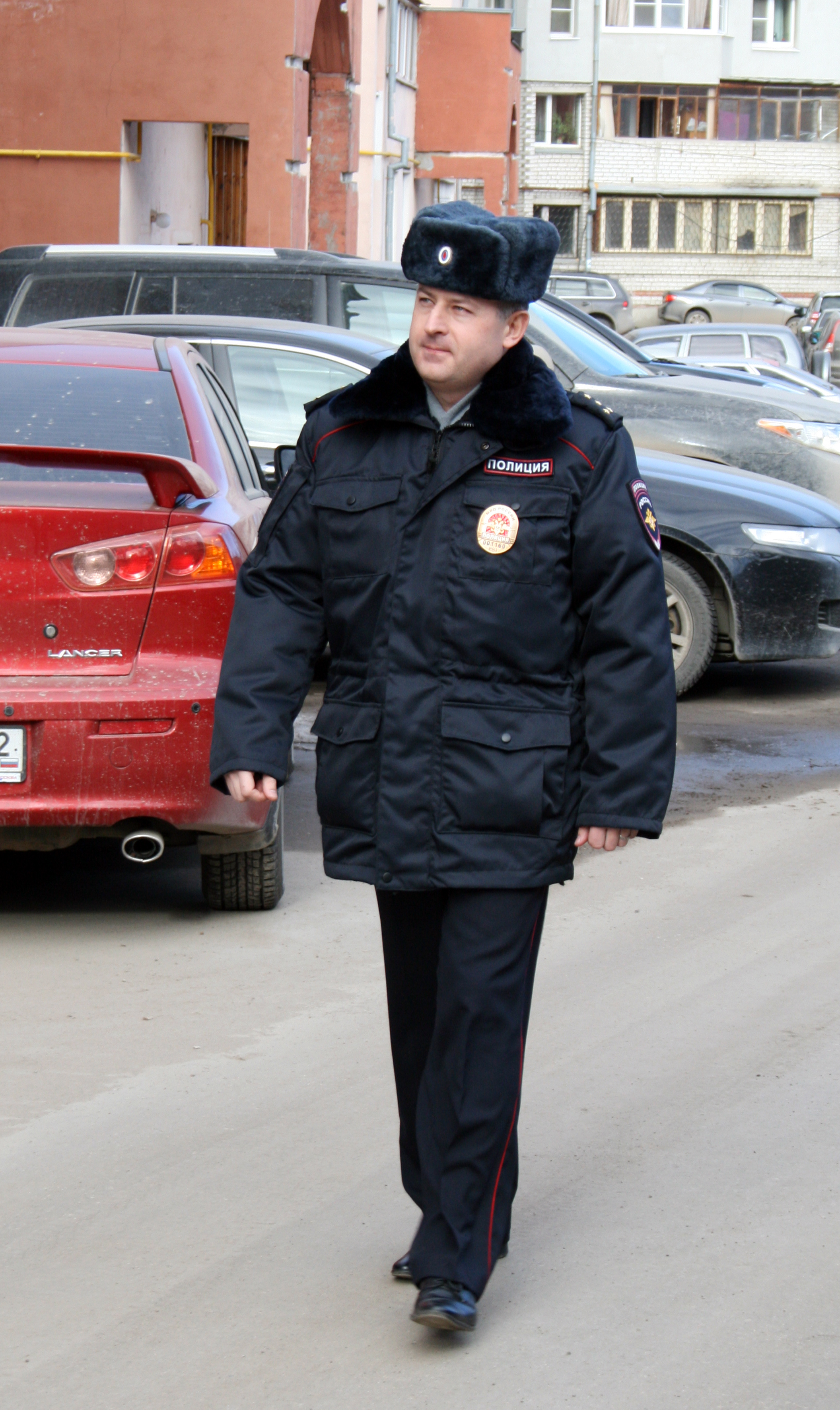 Policeman Russian. Photo Mironov A.N.